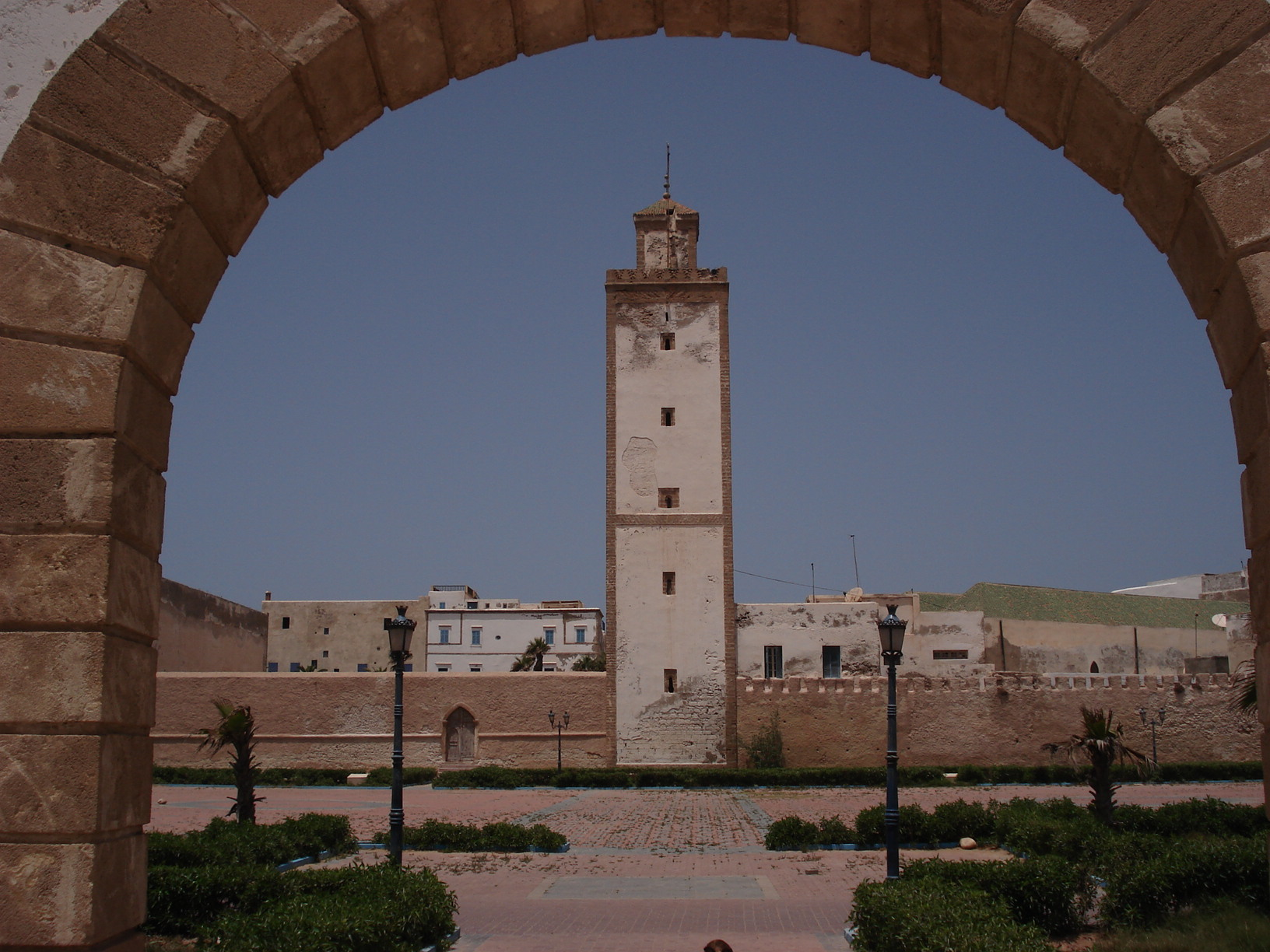 City walls of Essaouira